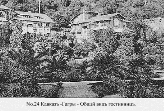 Pre-1917 postcard with a view of Gagra, Abkhazia.